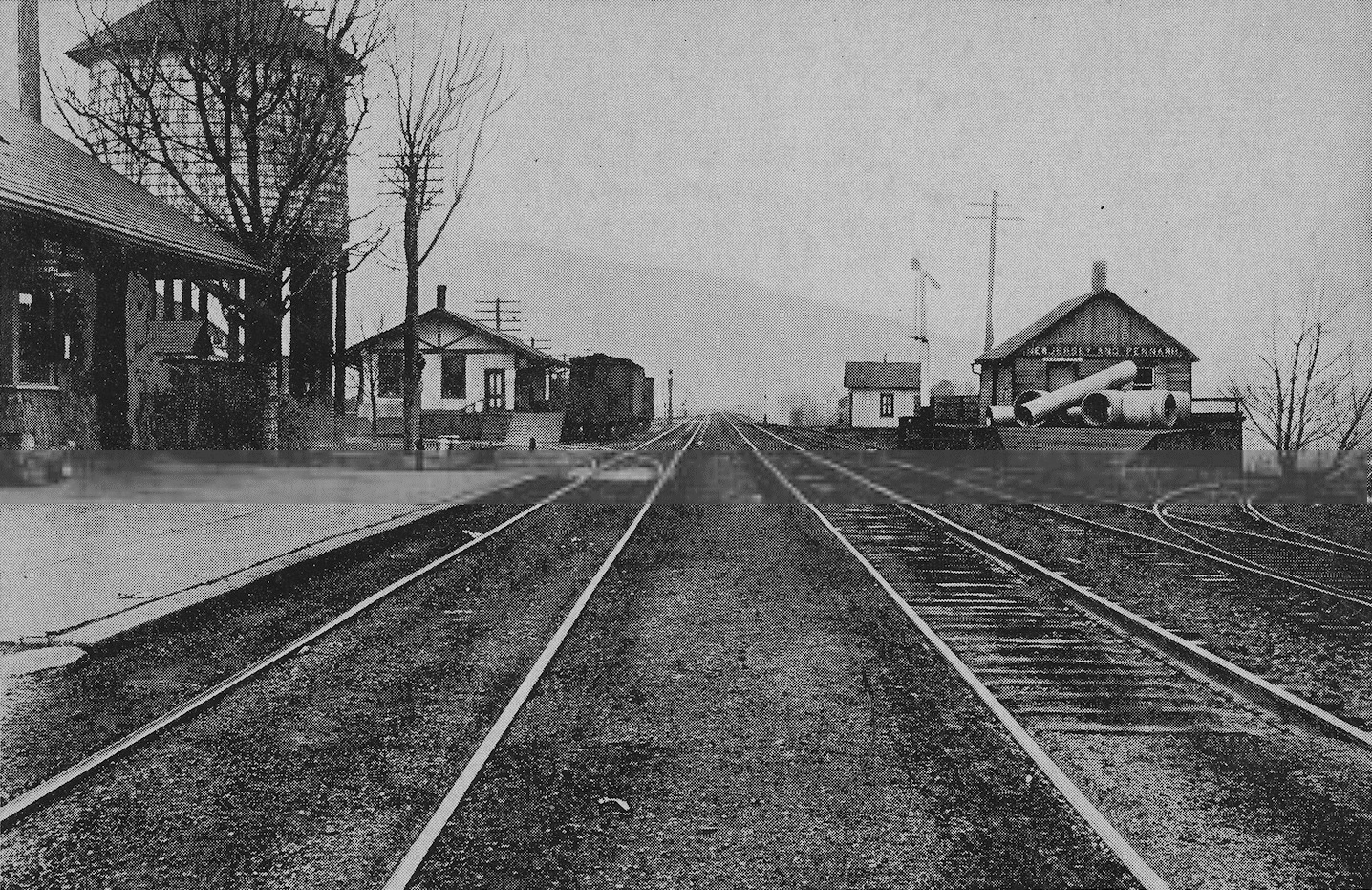 Central Railroad of New Jersey Railroad and New Jersey and Pennsylvania Railroad (Rockaway Valley Railroad) train stations at Whitehouse, New Jersey